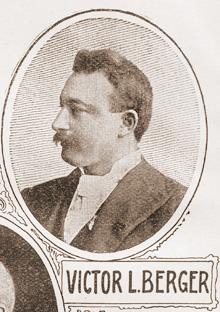 Victor L. Berger, American socialist newspaper publisher and politician, 1900